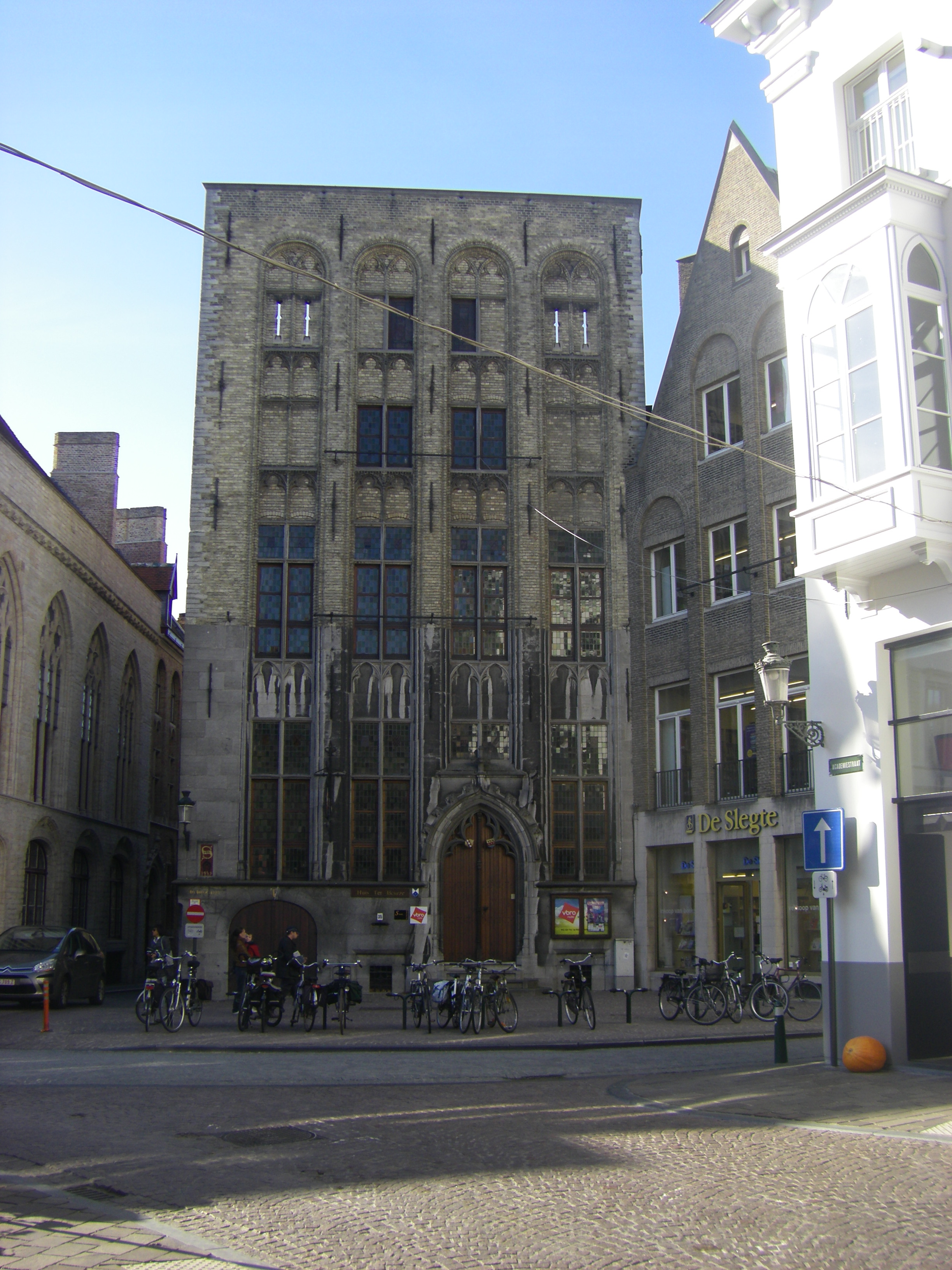 Mansion of family Van der Beurze in Brugge, Belgium, which led to a common international name for the organized exchange market, like Bourse (FR), Bolsa (ES), Borsa (IT), Börse (DE) and Børs (DA).